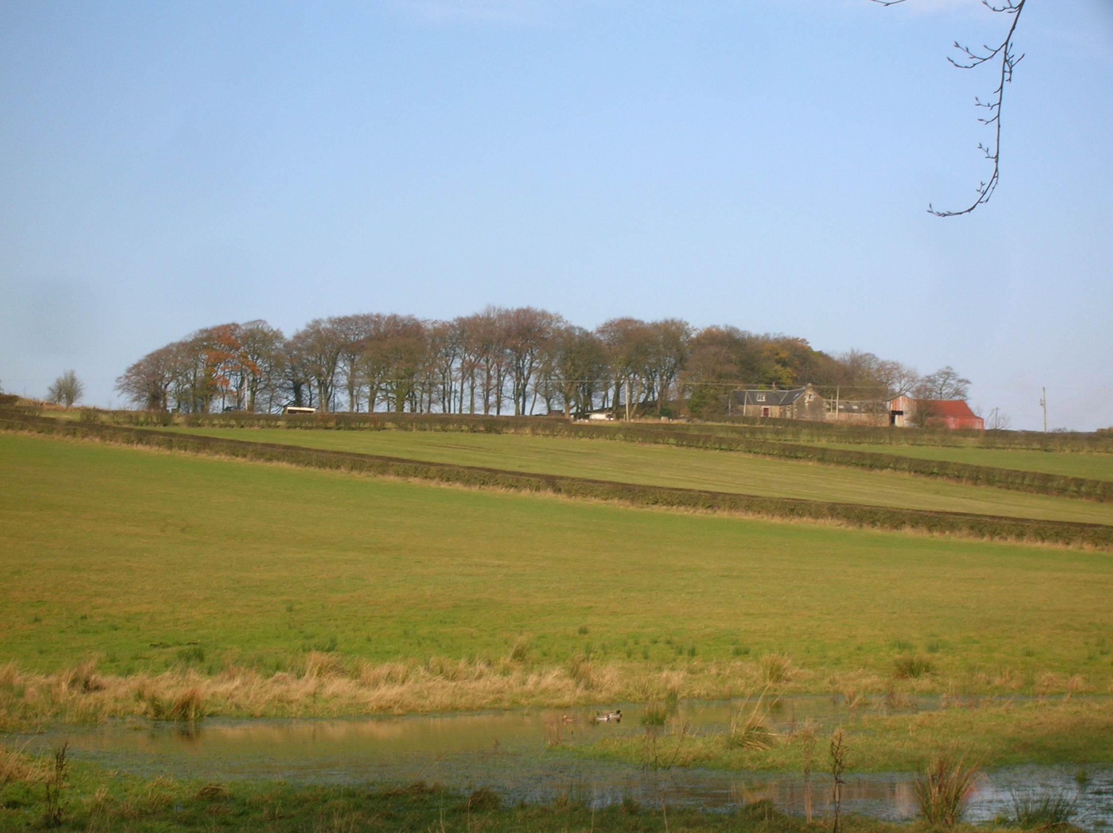 Threepwood Farm, Beith, North Ayrshire, Scotland